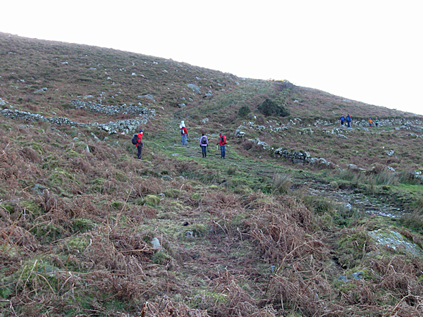 Old Trackways